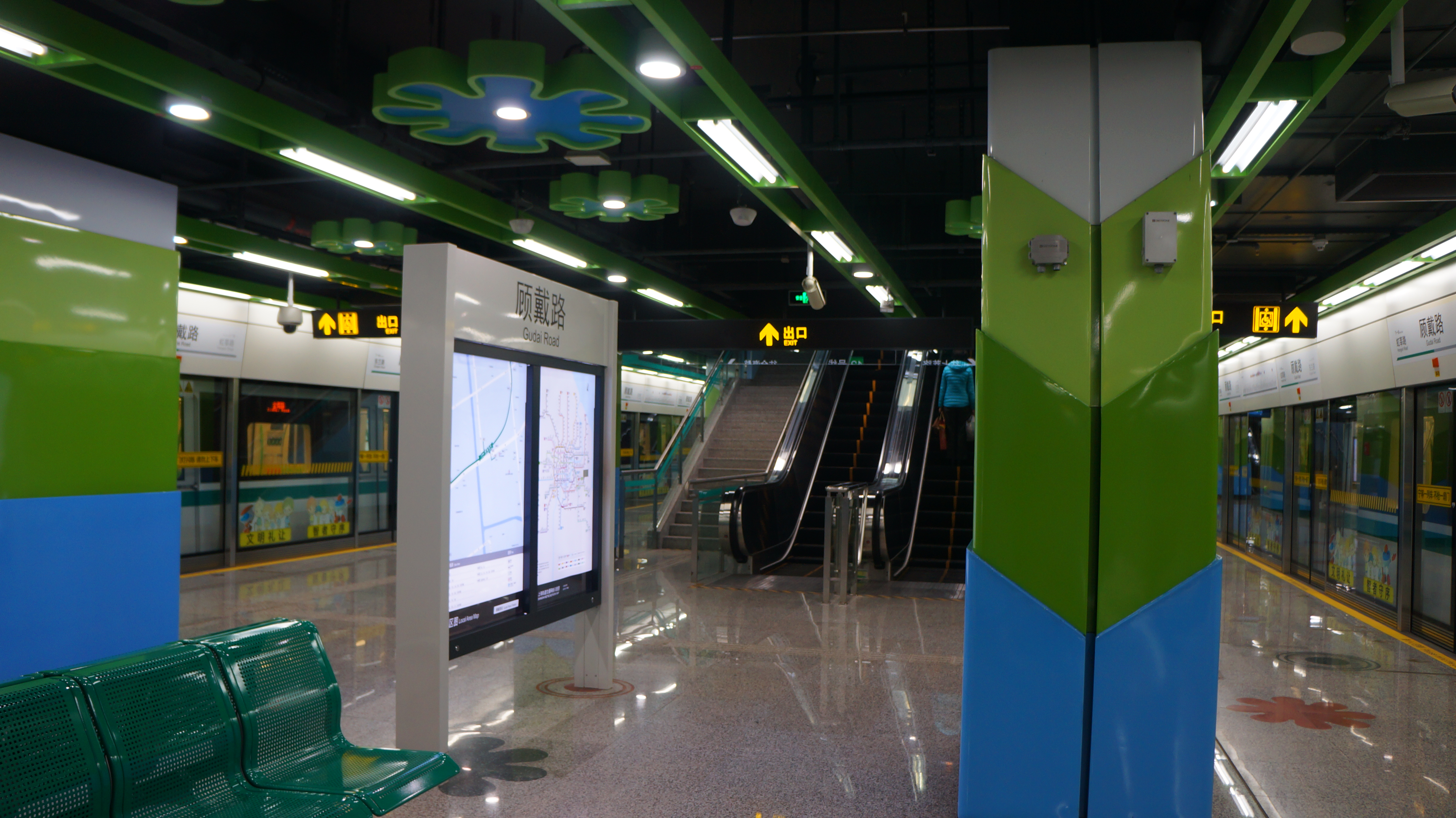 Platform for L12 at Gudai Road Station